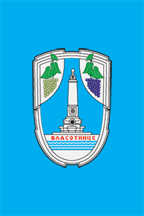 Flag of Vlasotince